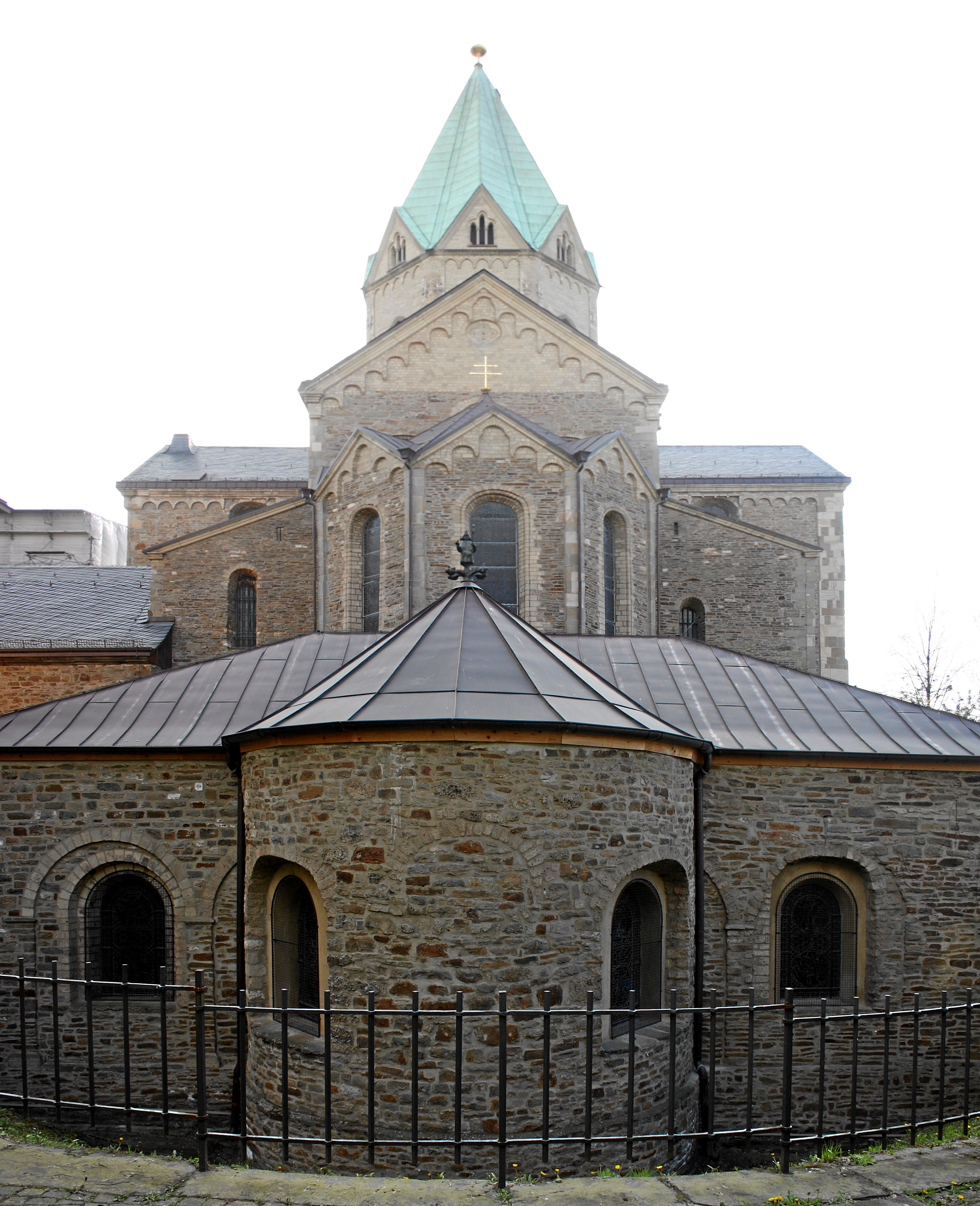 Essen-Werden, Germany. Roman-catholic church St. Ludgerus, basilica minor. Exterior from East, in the foreground is the external crypt.